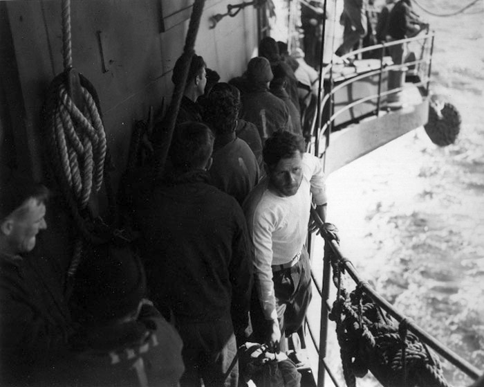 Kapitänleutnant Just, commander of the sunken German submarine U-546 comes aboard USS Bogue